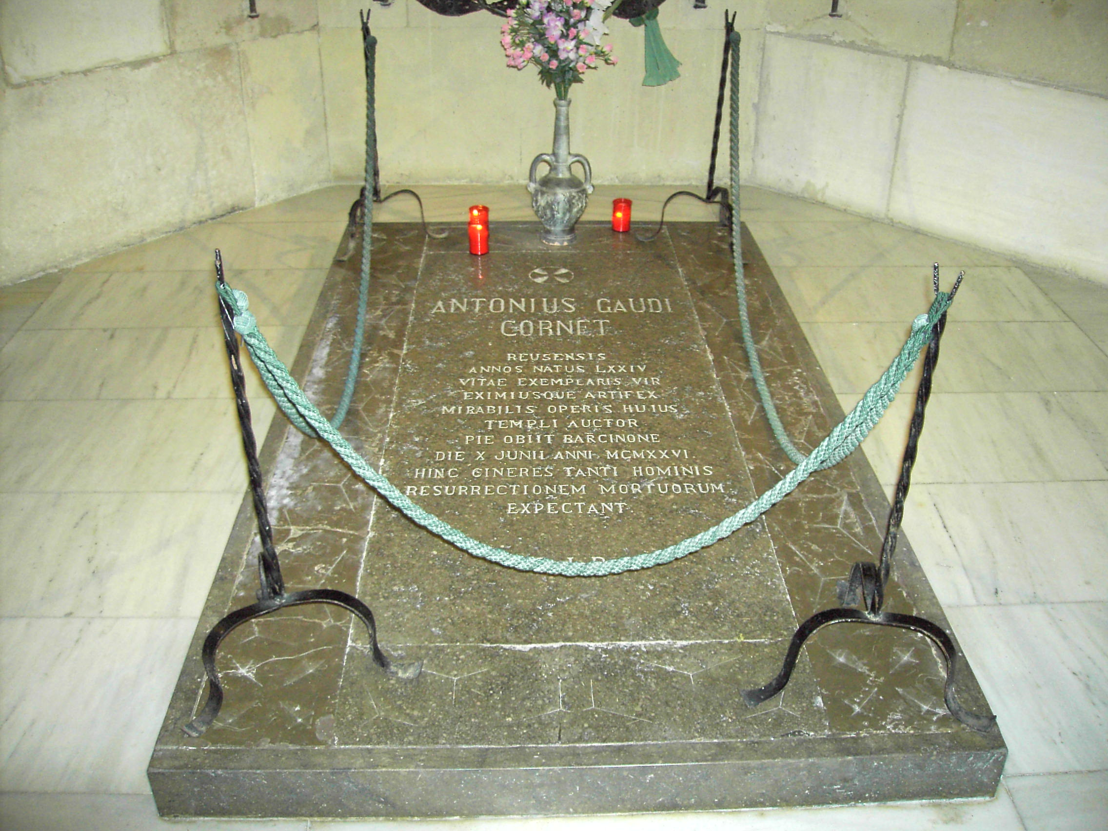 Grave of Antoni Gaudí, at Sagrada Família Church crypt, Barcelona